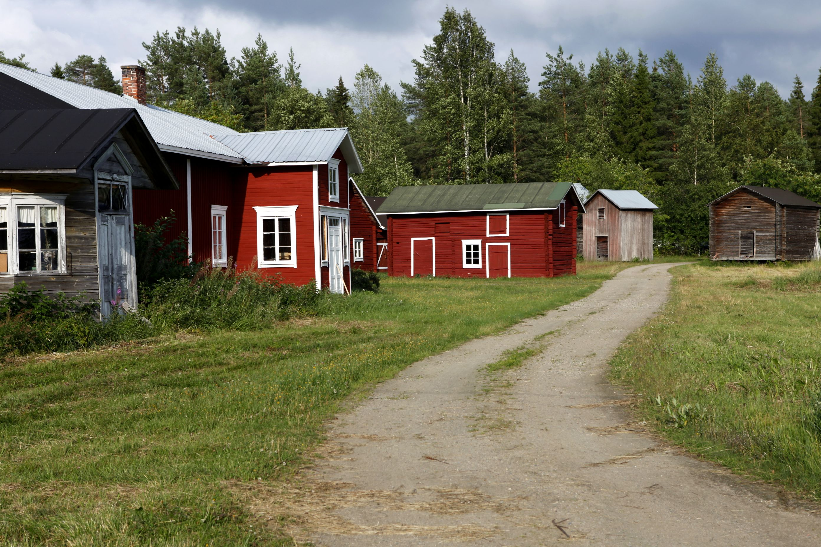 Houses in Maalismaa village, Yli-Ii (now part of Oulu), Finland.